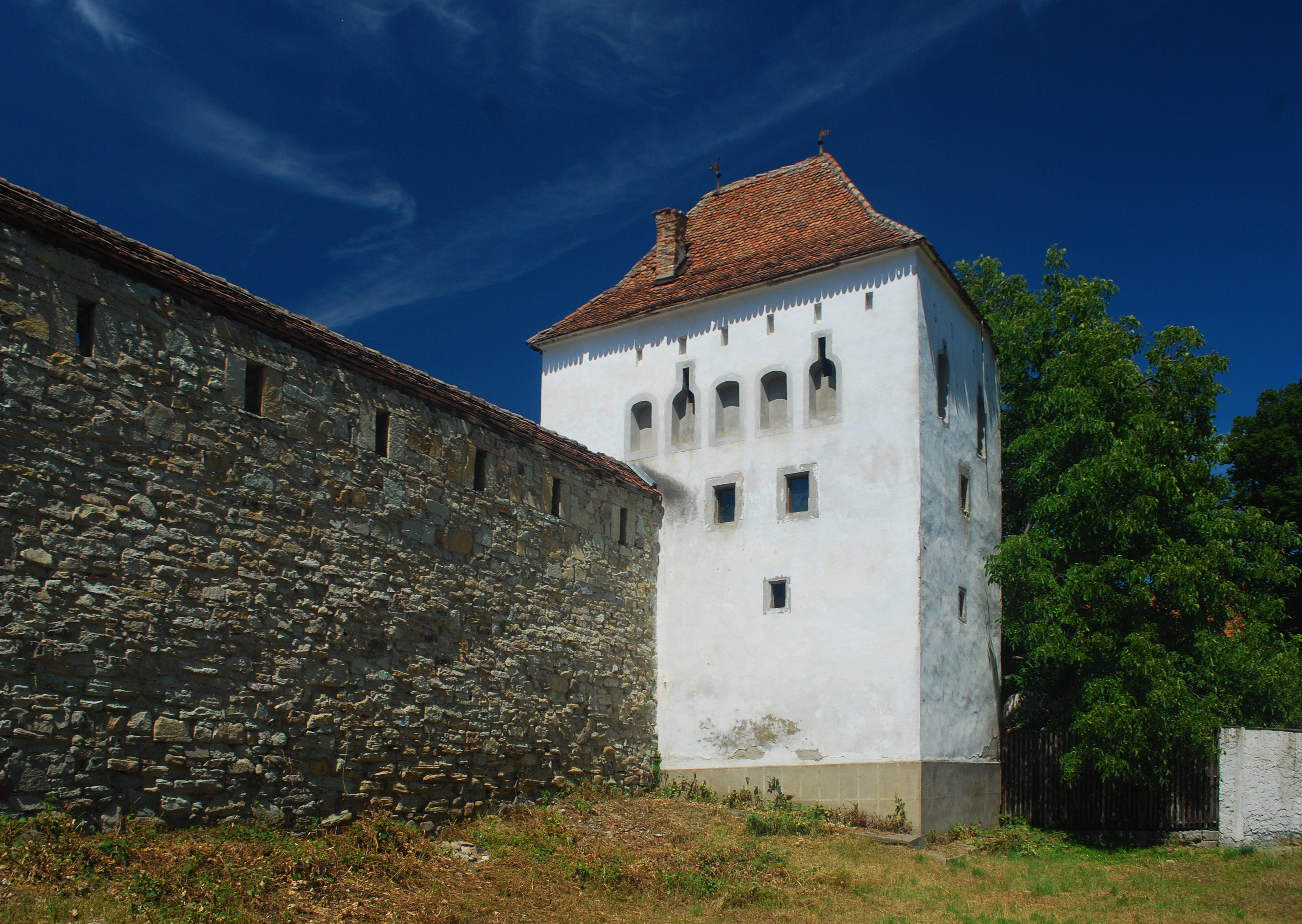 Coopers Tower in Bistrița, Romania